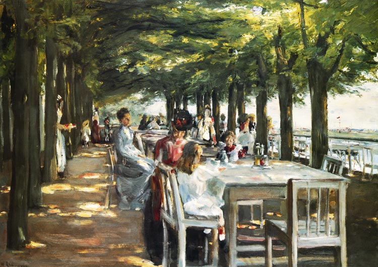 Title of the painting: „Terrasse of the restaurant Jacob in Nienstedten upon Elbe“ (Hotel+restaurant „Louis C. Jacob“ in Hamburg-Nienstedten at Elbchaussee since 1791). Today the painting can be seen in the Kunsthalle Hamburg. Robert Redford and Sybille Szaggars married in Juli 2009 in the hotel Louis C. Jacob.